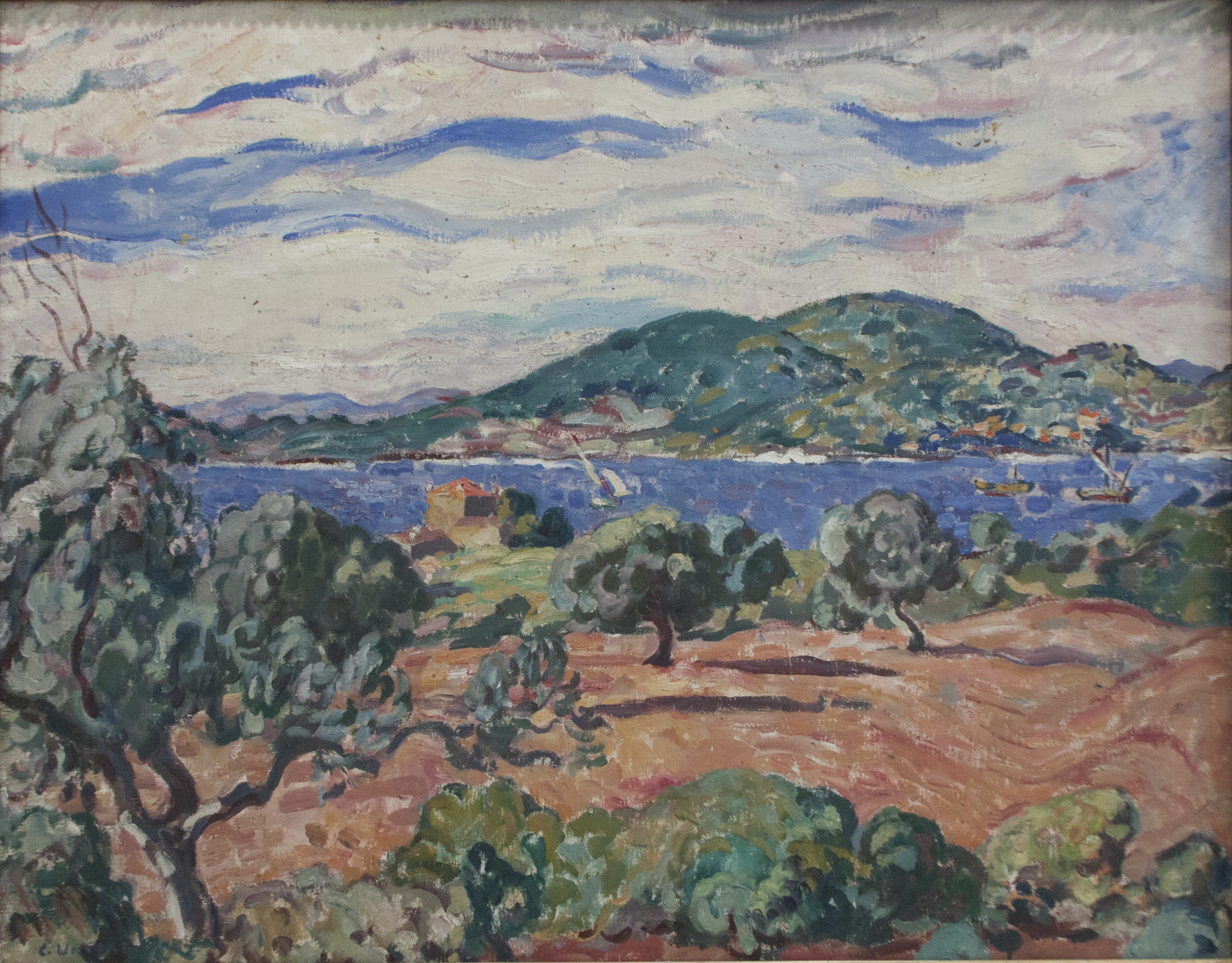 ca 1906-1907 oil on canavas Acquired in 1948 from the State Museum of Modern Western Art Moscow; formerly in the collection of Ivan Morozov